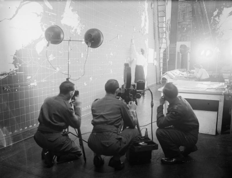 The Royal Navy during the Second World War Official Wartime Film Production: Army Film Unit cameramen filming a Wren marking a position on the chart in the Atlantic Battle Operations Room at Derby House, Liverpool, for use in "The True Glory", January 1945. The location is genuine, though a later caption says "The report on the board was an imaginary one".